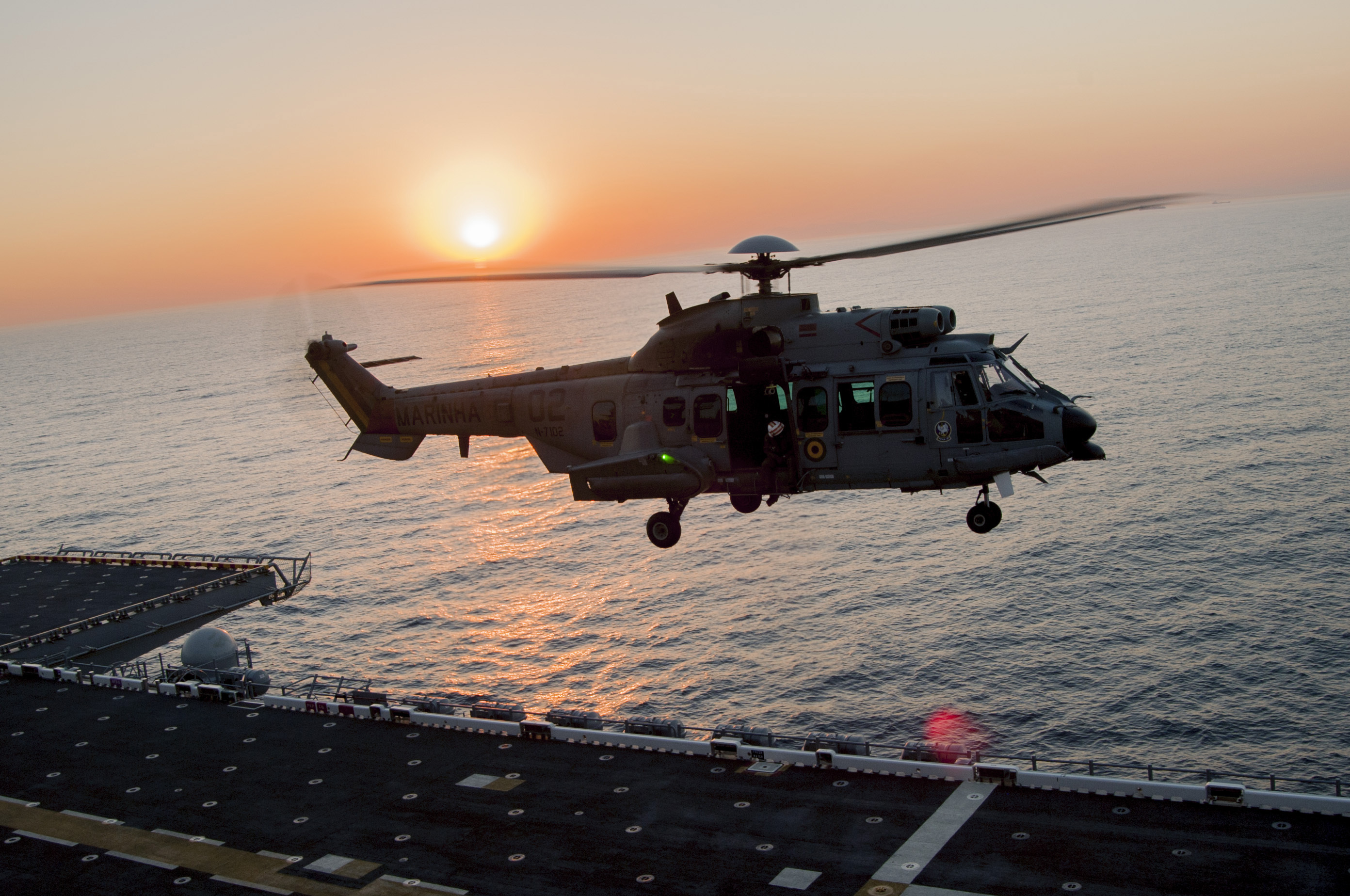 A Brazilian EC-725 Cougar helicopter prepares to land on the flight deck of future amphibious assault ship USS America (LHA 6) during deck landing qualifications (DLQs) as part of a training partnership between the Brazilian and U.S. navies. America is currently traveling through the U.S. Southern Command and U.S. 4th Fleet area of responsibility on its maiden transit, "America visits the Americas." America is the first ship of its class, replacing the Tarawa-class of amphibious assault ships. As the next generation "big-deck" amphibious assault ship, America is optimized for aviation, capable of supporting current and future aircraft such as the MV-22 Osprey and F-35B Joint Strike Fighter. The ship is scheduled to be ceremoniously commissioned Oct. 11 in San Francisco. (U.S. Navy photo by Mass Communication Specialist 1st Class Lewis Hunsaker/Released)